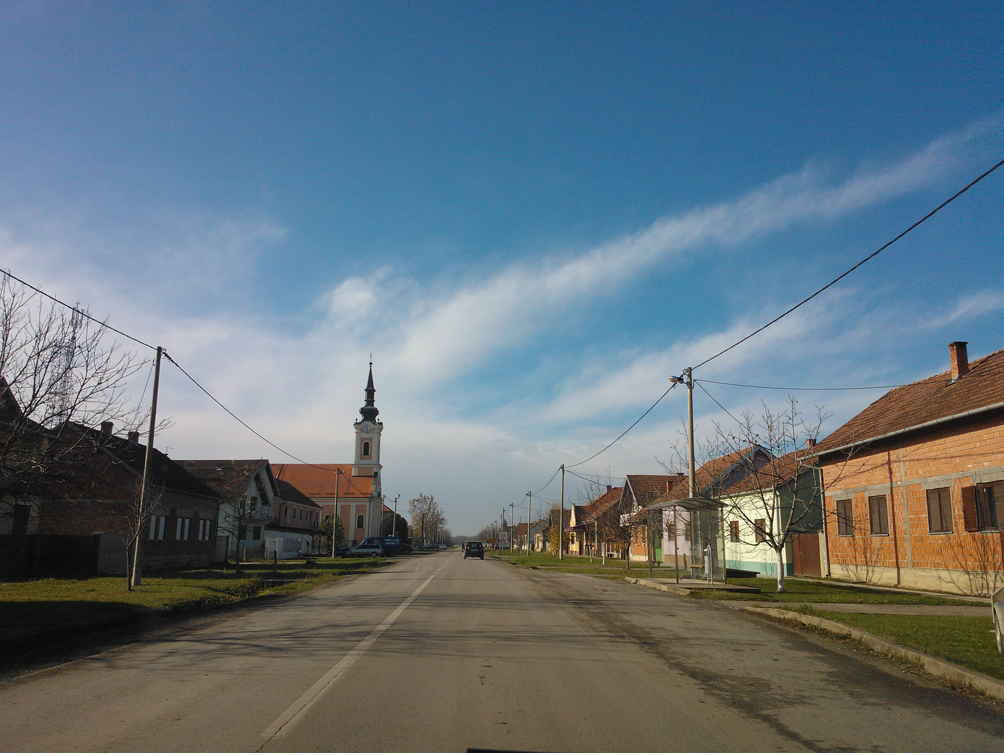 Lipovac. Croatia. Српски (ћирилица): Село Липовац, вуковарско-сремска жупанија. Хрватска.